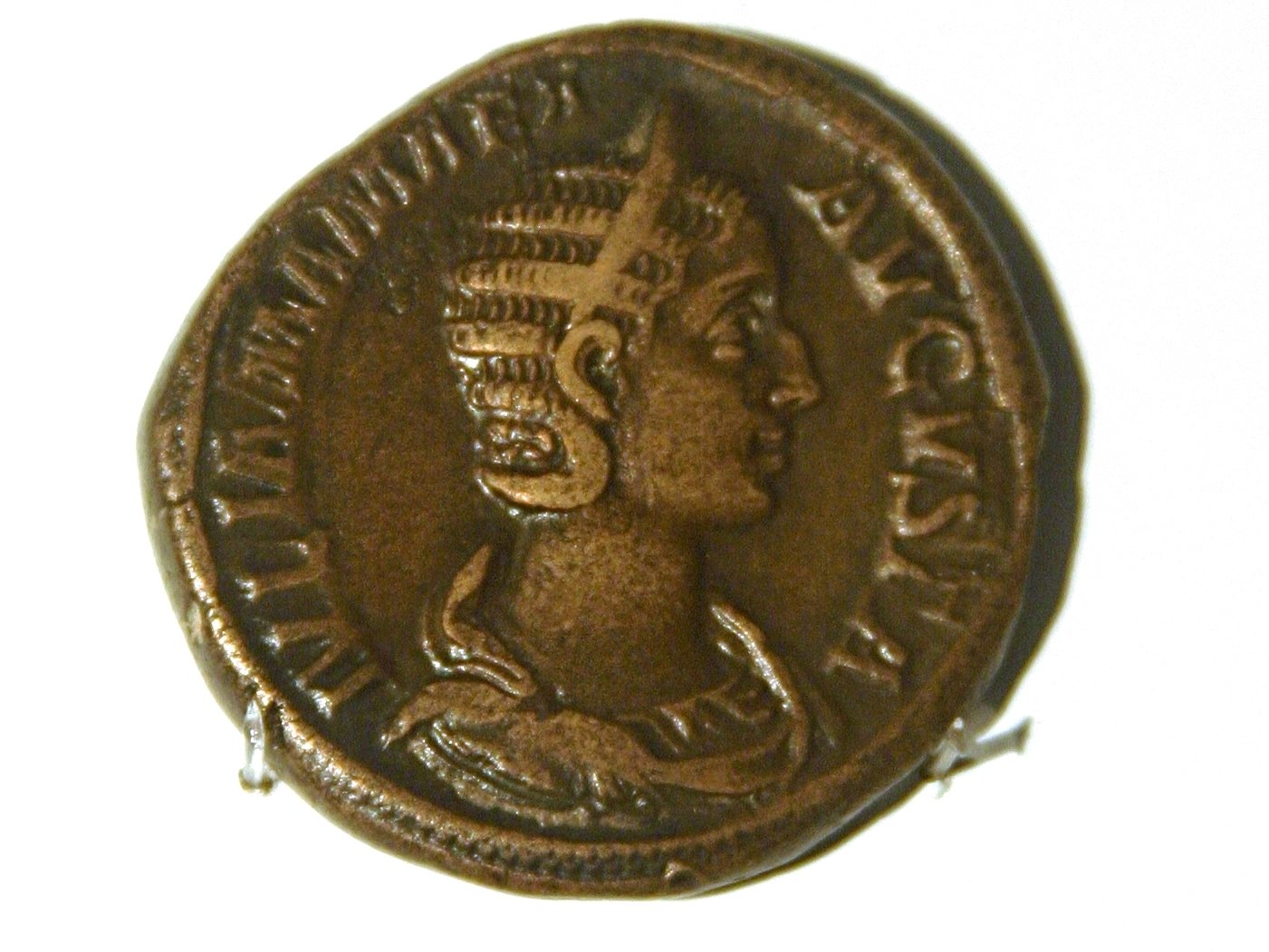 Museu d'Arqueologia de Catalunya